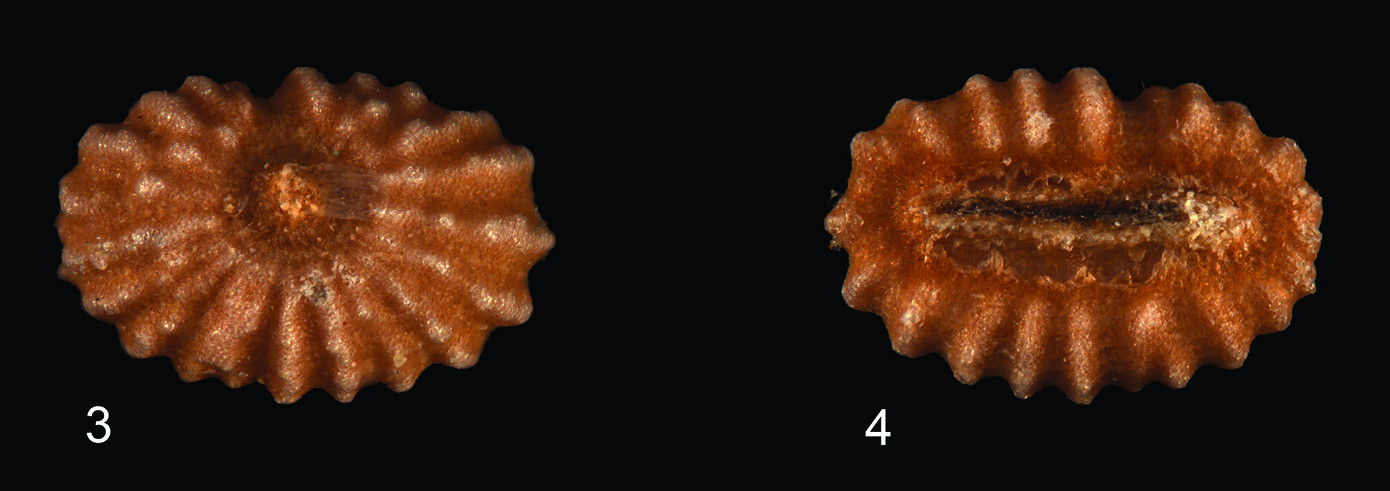 Polyspatha oligospatha Faden, sp. nov. 3 Seed, dorsal view. 4. Seed, ventral view. (From de Wilde & de Wilde-Duyfjes 2647 [BR] from Cameroon)